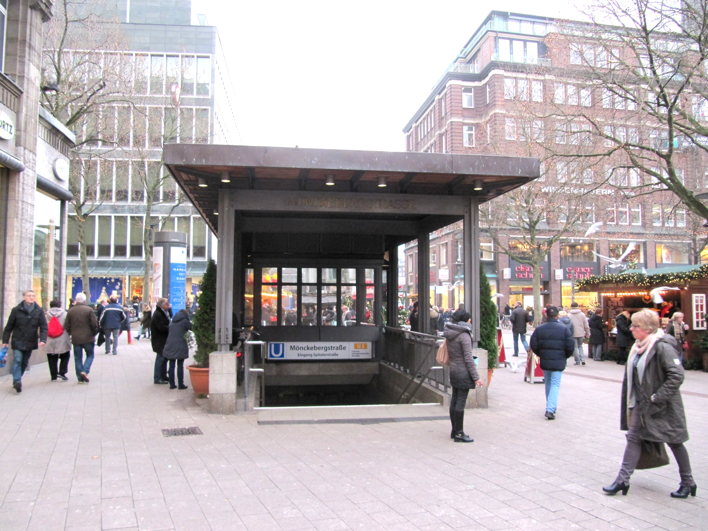 Northern entrance to the tracks westbound direction.